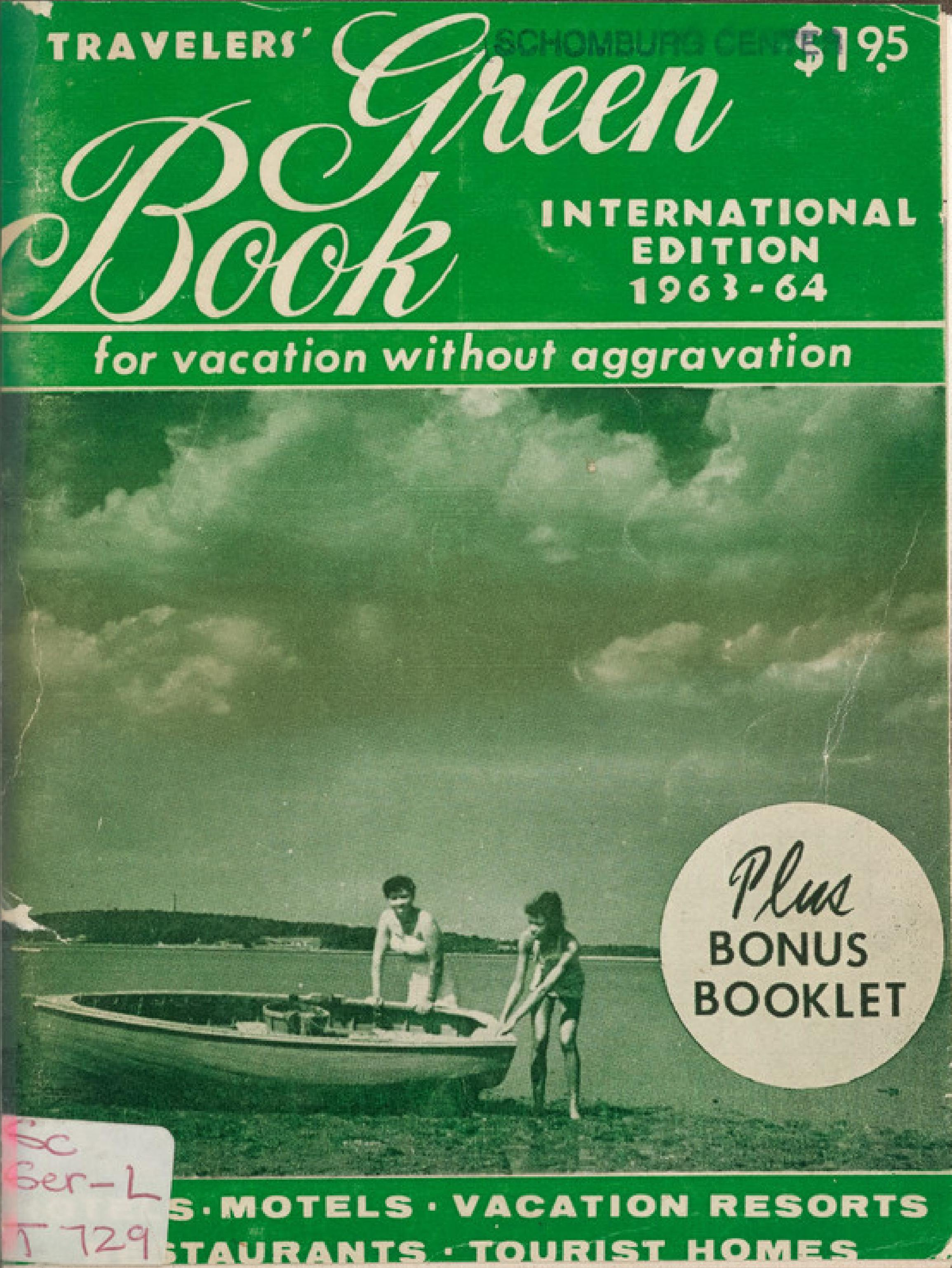 The Green Book was a travel guide published between 1936 and 1966 that listed hotels, restaurants, bars, gas stations, etc. where Black travelers would be welcome. 21 volumes, 1937 - 1964. According to legal research done by NYPL staff, those 21 volumes have no known US copyright restrictions, and can be used and reused freely.